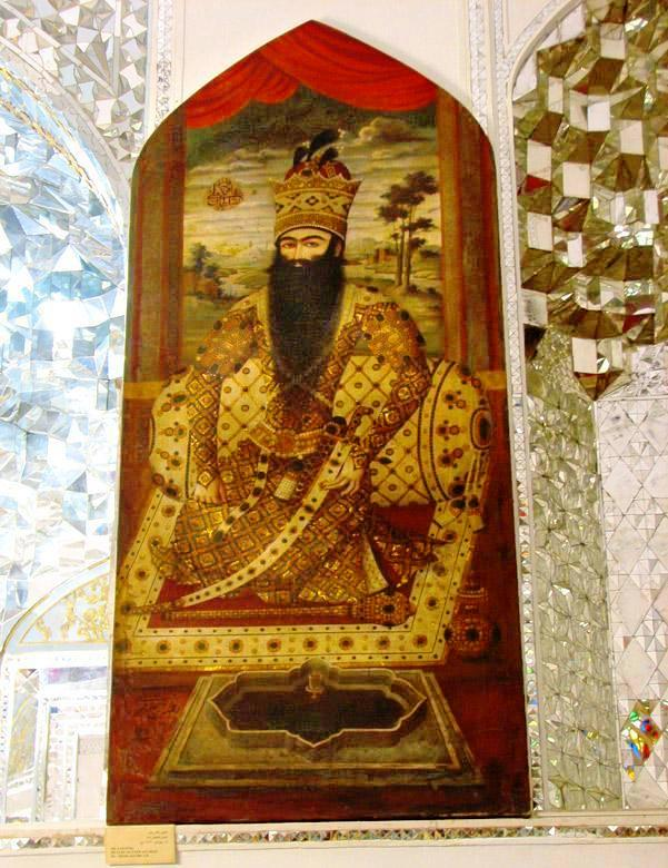 Fat′h Ali Shah Qajar